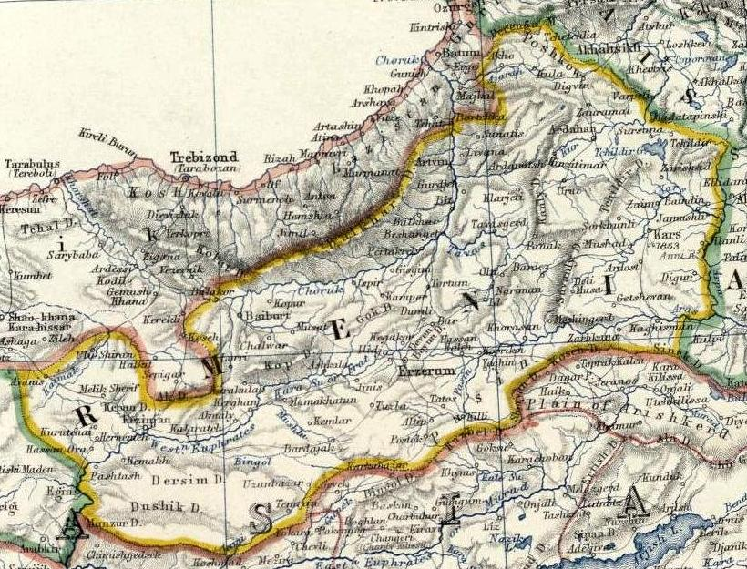 Turkey in Asia, Asia Minor, and Transcaucasia. By Keith Johnston, F.R.S.E. Engraved & printed by W. & A.K. Johnston, Edinburgh. William Blackwood & Sons, Edinburgh & London, (1861)